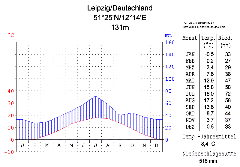 climate chart in the format by Walther and Lieth, metric, °Celsisus and millimeters, made with Geoklima 2.1